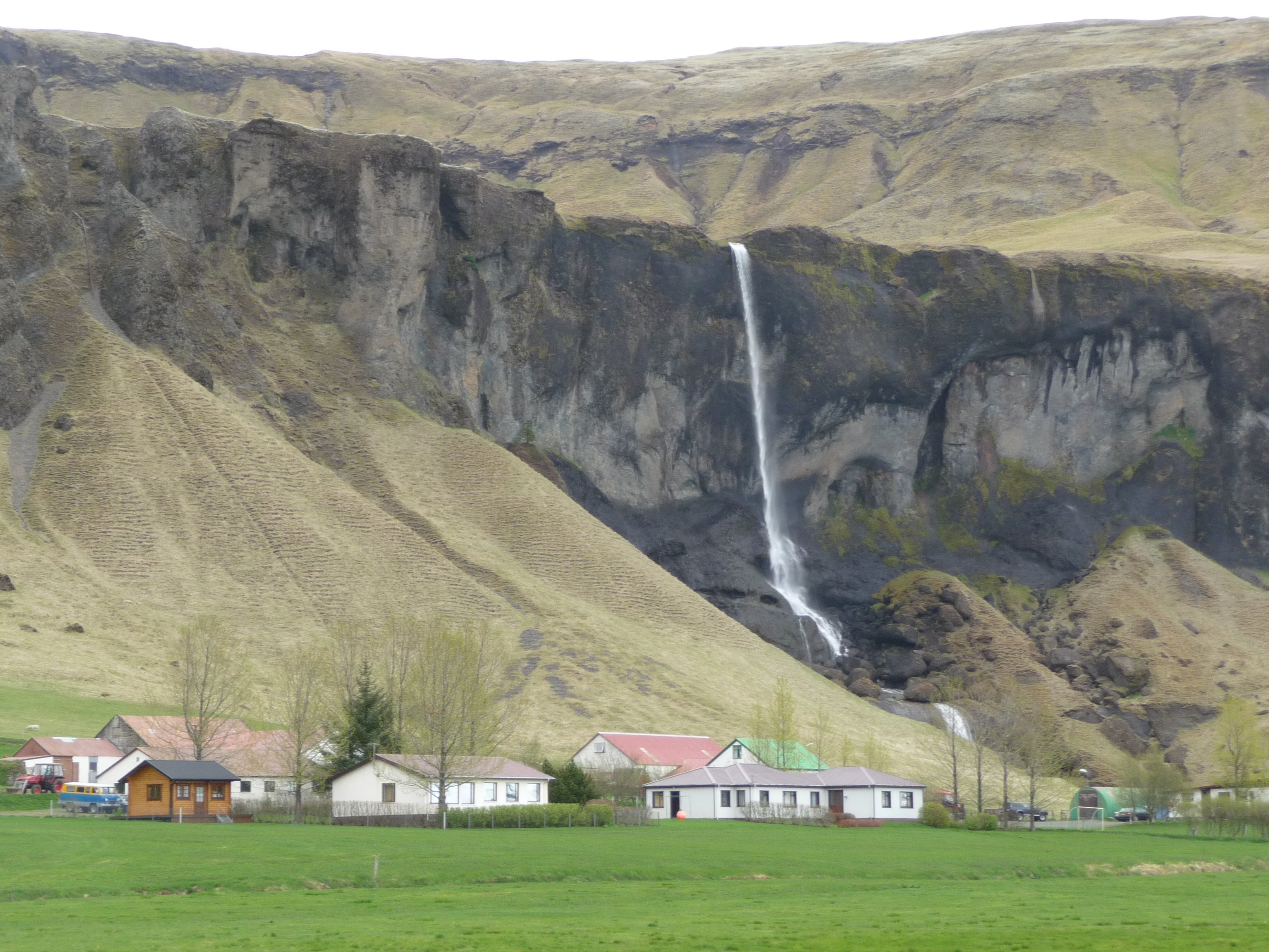 The Foss á Síðu waterfall in southern Iceland.